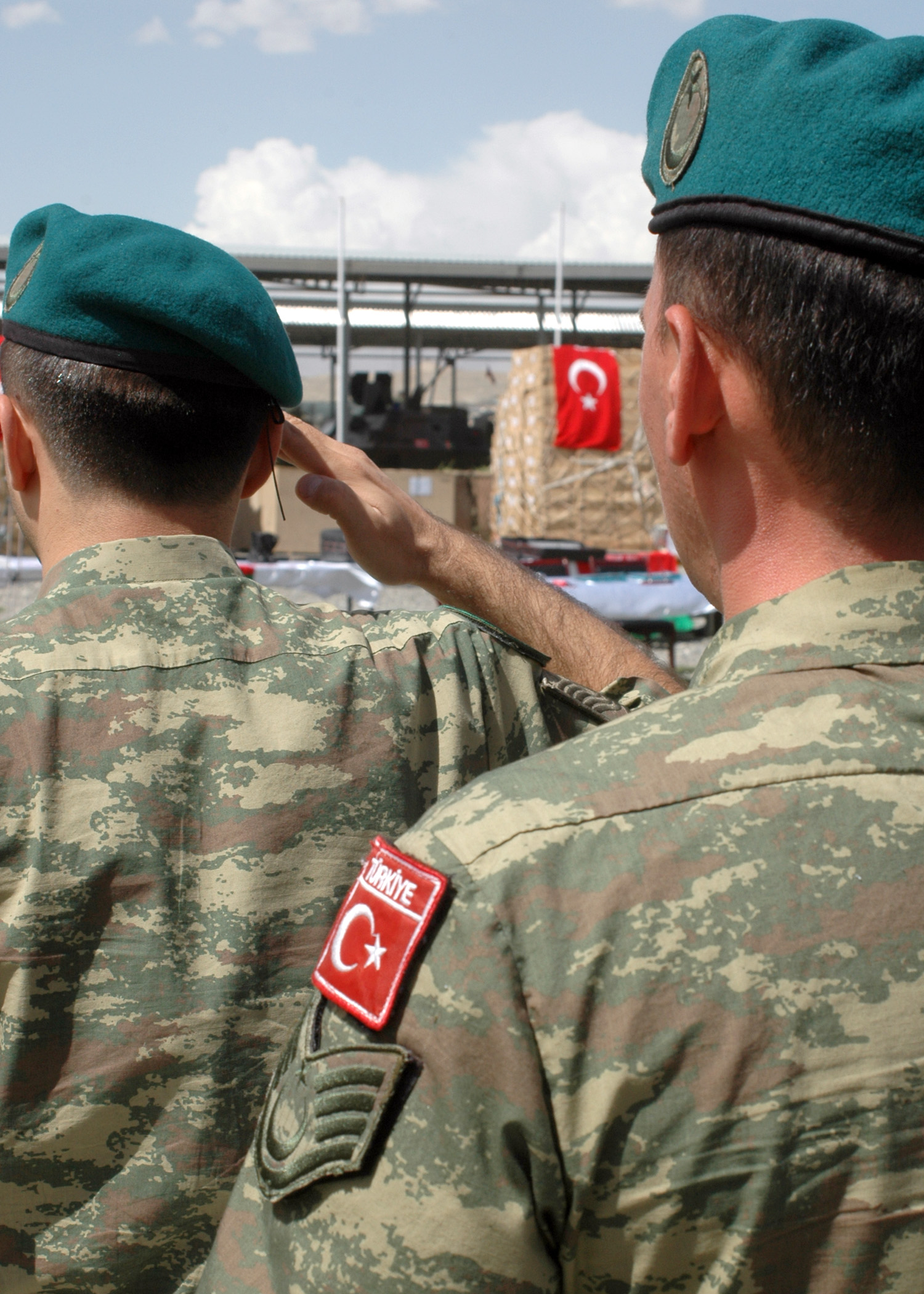 100614-N-3218H-005 (Kabul, Afghanistan) Two Turkish soldiers salute while the Afghan National Army band plays the national anthems of Turkey and Afghanistan. Turkey has an outstanding relationship with Afghanistan and continues to support recovery and sustainment. (U.S. Navy photo by MC2 (SW) Christopher Hall)